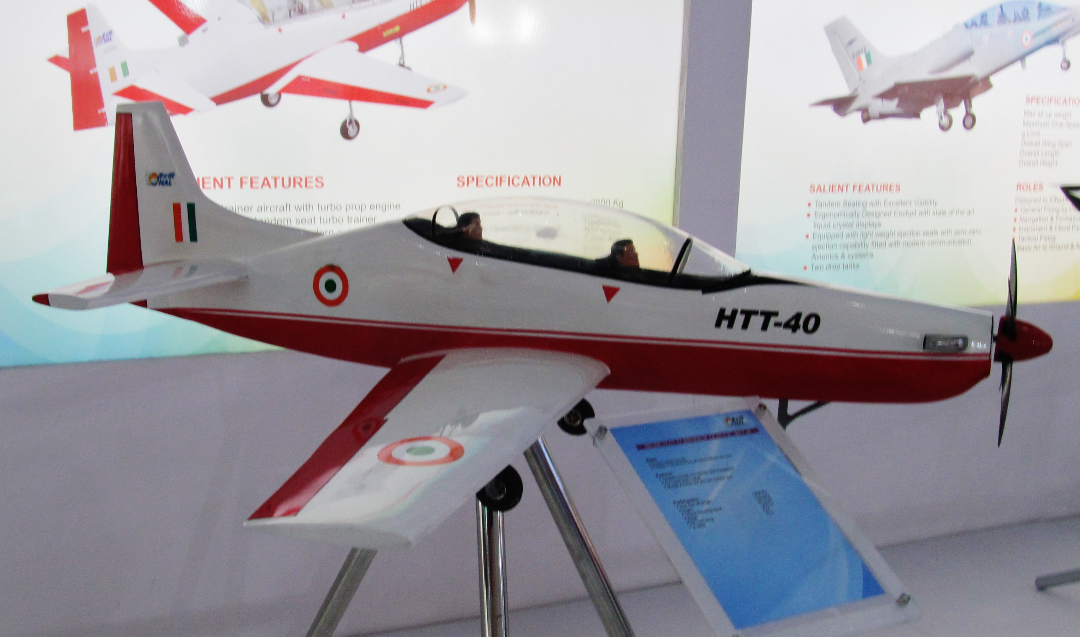 HAL HTT-40 model, during DefExpo 2014, New Delhi.